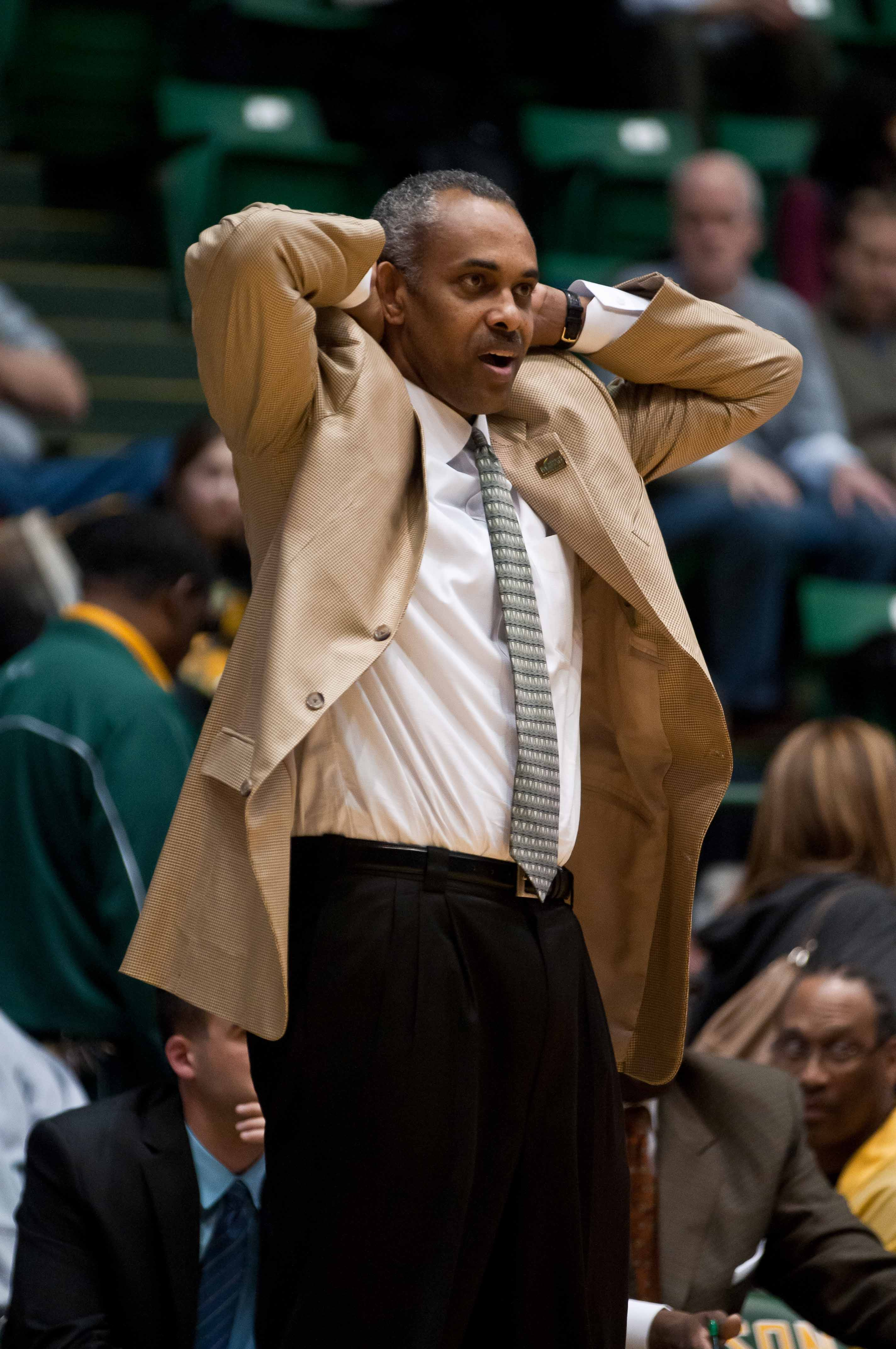 Paul Hewitt, then coach of the George Mason Patriots, coaches his team in a 54-50 win against Old Dominion University.